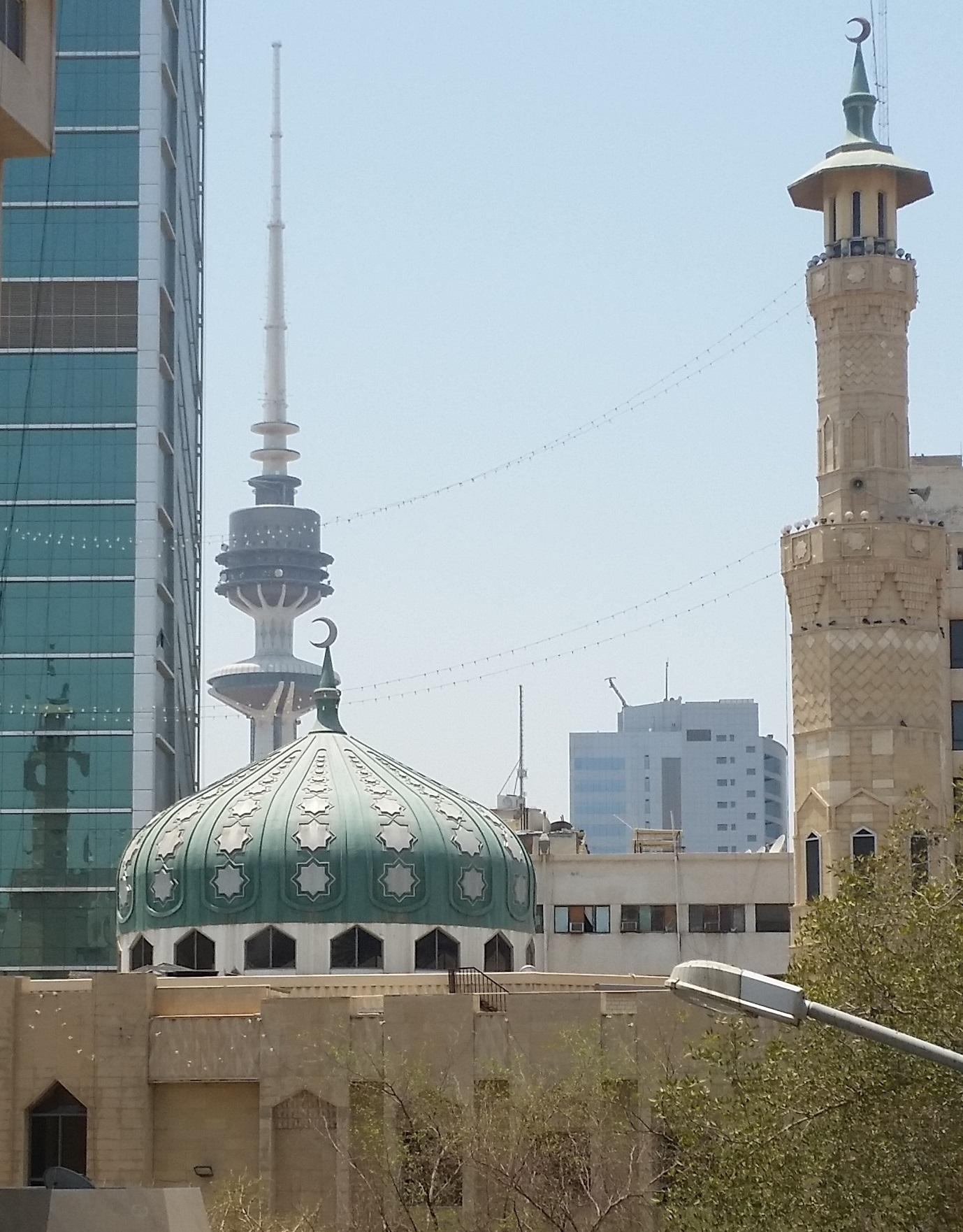 A photo of Al-Imam As-Sadiq Mosque about one month after the terrorist attack.